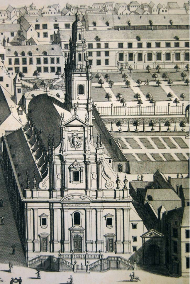 Detail of engraving by Renier Blokhuijse, The Brussels Jesuit church and college (published in Antonius Sanderus, Chorographia sacra Brabantiae, ‘s-Gravenhage, 1727)